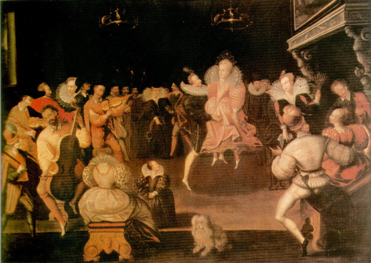 Queen Elizabeth I Dancing with Robert Dudley, Earl of Leicester . Artist unknown possibly Marcus Gheeraerts / French Valois school, c . 1580 . Dancing the la volta. Courtesy of Penshurst Palace, Kent Formerly thought to be Queen Elizabeth I of England dancing with Robert Dudley, Earl of Leicester. Now the title of the painting, at Penshurst Place in Kent, is thought to be ironic or mocking, as the painting is associated with the French Valois school, c. 1580.